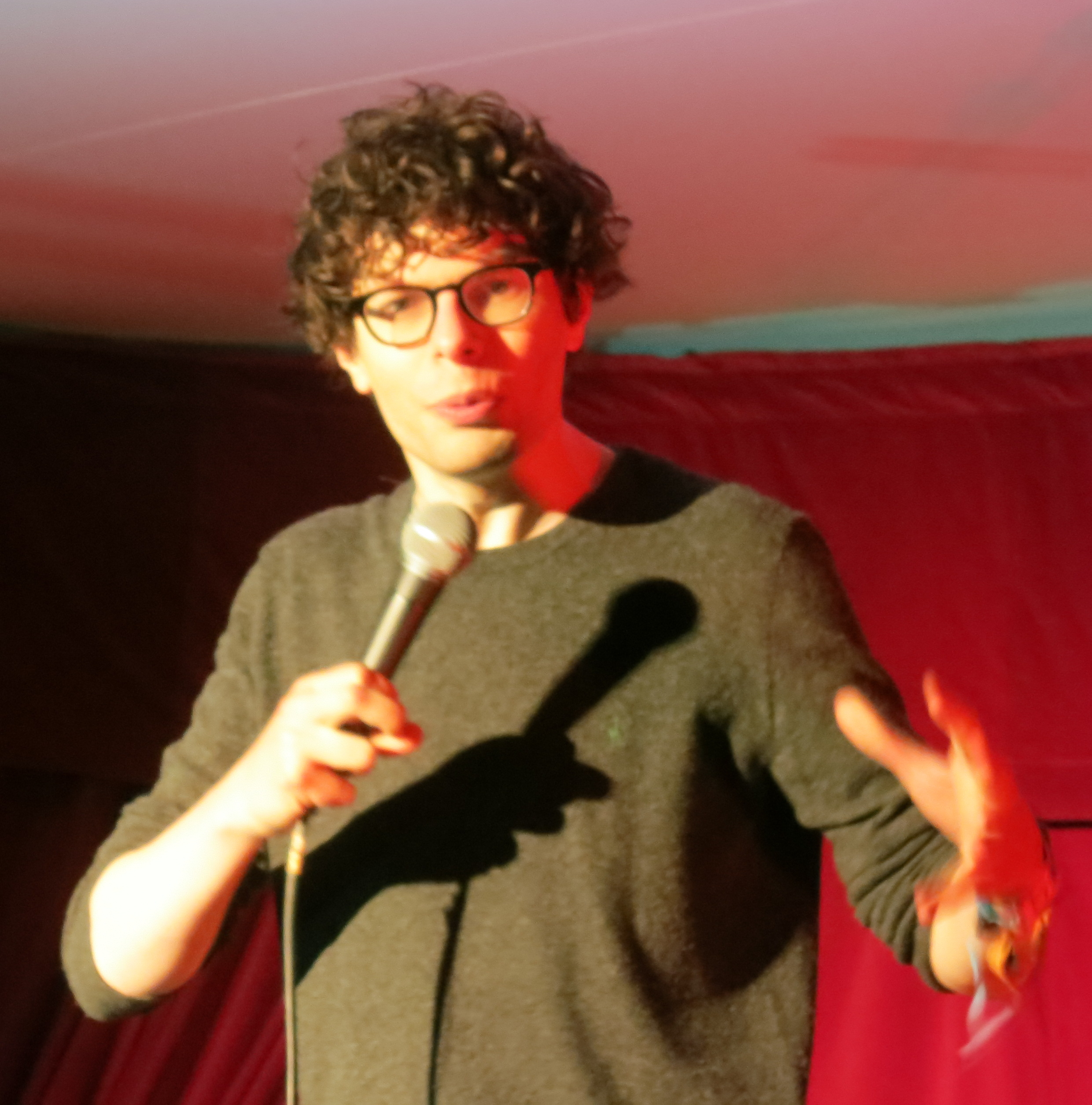 Simon Amstell performing at Queens' College, Cambridge - May Ball 2013